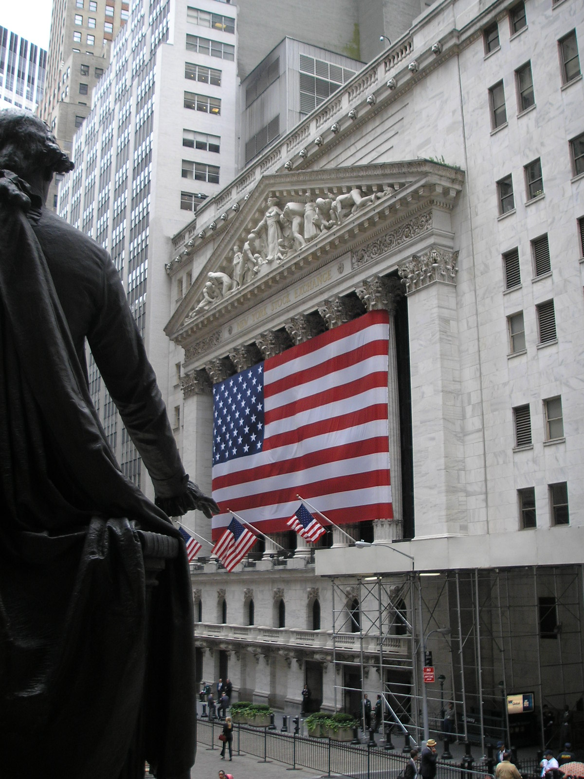 View on to Wall Street and the New York Stock Exchange, from the statue of George Washington at Federal Hall.